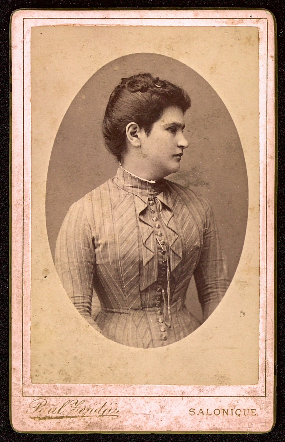 Photo by Paul Zepdji of Elena Statelova in 1887